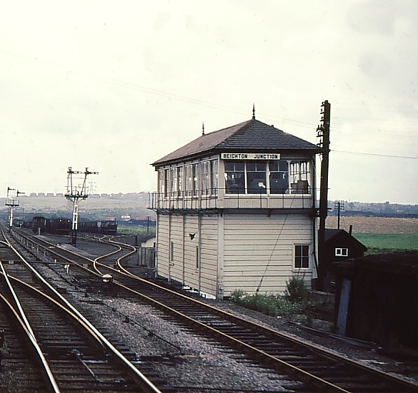 Beighton Jct